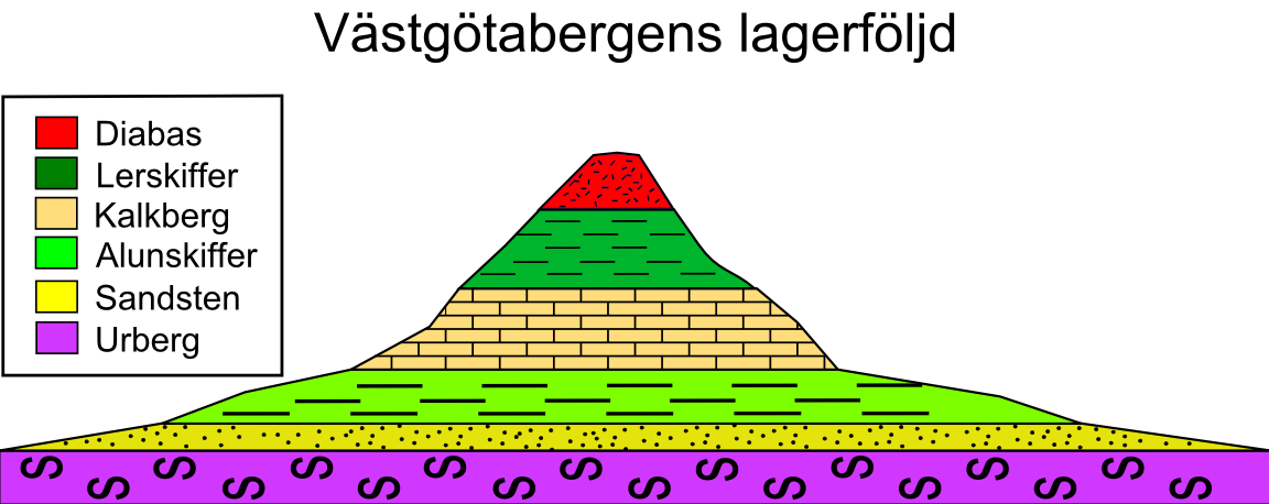 Cross section of a table mountain of Västergötland (Sweden).